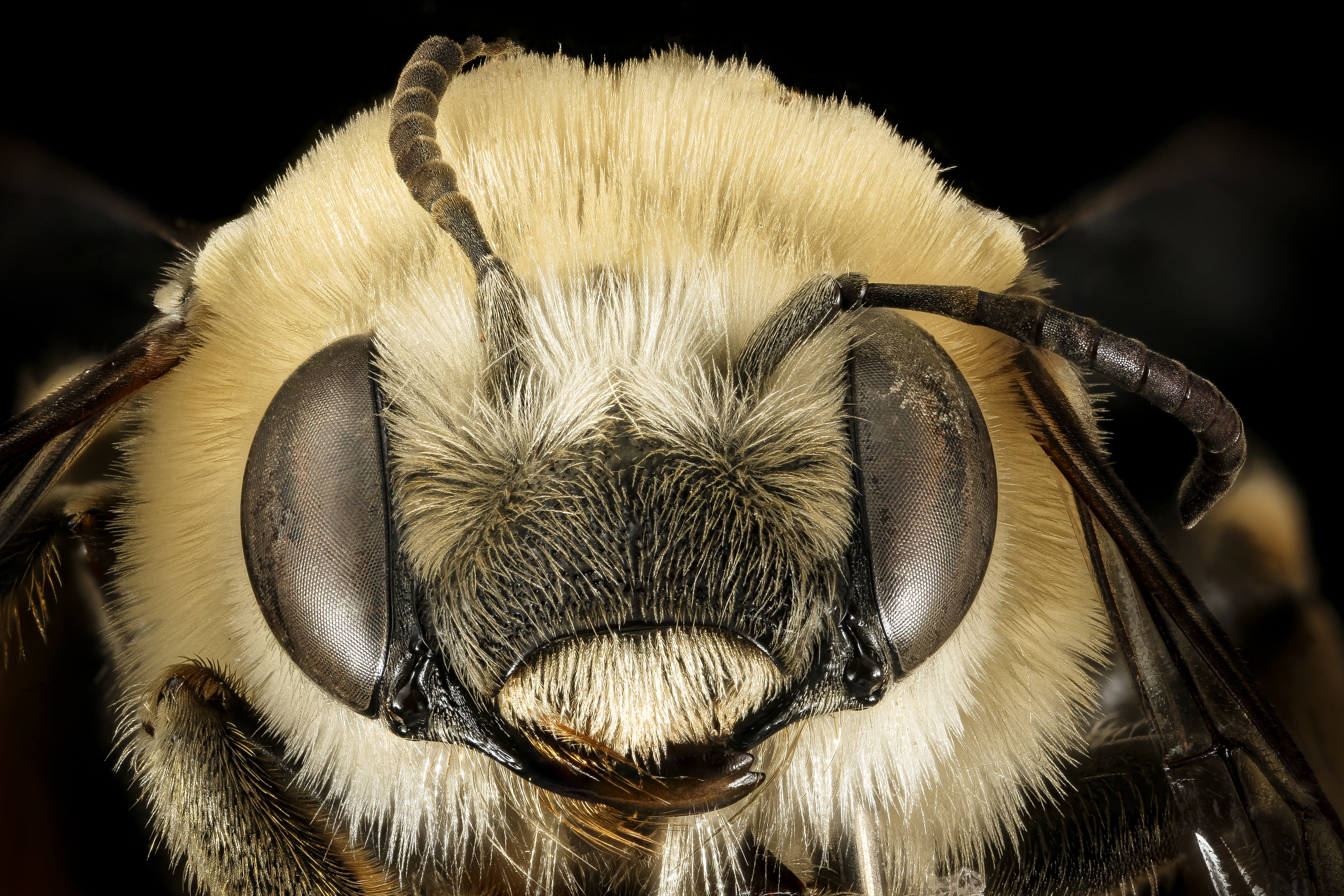 A beautiful spring Eucera from Badlands National Park in South Dakota. Eucera are almost always buff bees. Photograph by Dejen Mengis. 02:56, 29 February 2016 (UTC)02:56, 29 February 2016 (UTC) 0 02:56, 29 February 2016 (UTC)02:56, 29 February 2016 (UTC) All photographs are public domain, feel free to download and use as you wish. Photography Information: Canon Mark II 5D, Zerene Stacker, Stackshot Sled, 65mm Canon MP-E 1-5X macro lens, Twin Macro Flash in Styrofoam Cooler, F5.0, ISO 100, Shutter Speed 200 Beauty is truth, truth beauty - that is all Ye know on earth and all ye need to know " Ode on a Grecian Urn" John Keats You can also follow us on Instagram account USGSBIML Want some Useful Links to the Techniques We Use? Well now here you go Citizen: Art Photo Book: Bees: An Up-Close Look at Pollinators Around the World Basic USGSBIML set up: USGSBIML Photoshopping Technique: Note that we now have added using the burn tool at 50% opacity set to shadows to clean up the halos that bleed into the black background from "hot" color sections of the picture. PDF of Basic USGSBIML Photography Set Up: ftp://ftpext.usgs.gov/pub/er/md/laurel/Droege/How%20to%20Take%20MacroPhotographs%20of%20Insects%20BIML%20Lab2.pdf Google Hangout Demonstration of Techniques: or Excellent Technical Form on Stacking: Contact information: Sam Droege 301 497 5840